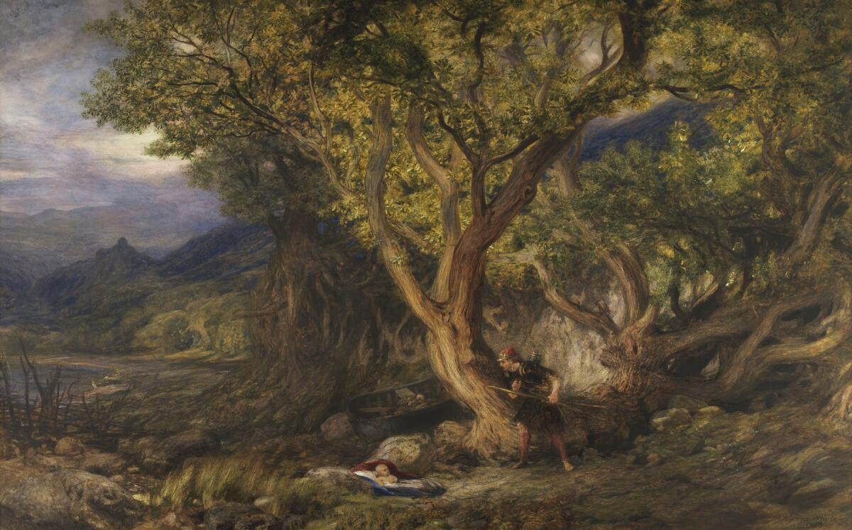 A painting from the Framed Works of Art collection at the National Library of wales.